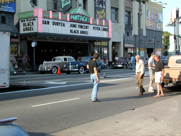 View of The Black Dahlia film shoot in June 2005, taken from public area in front of the Pantages Theater on Hollywood Boulevard in Los Angeles, California. Photo taken by User:Detroit.bus.